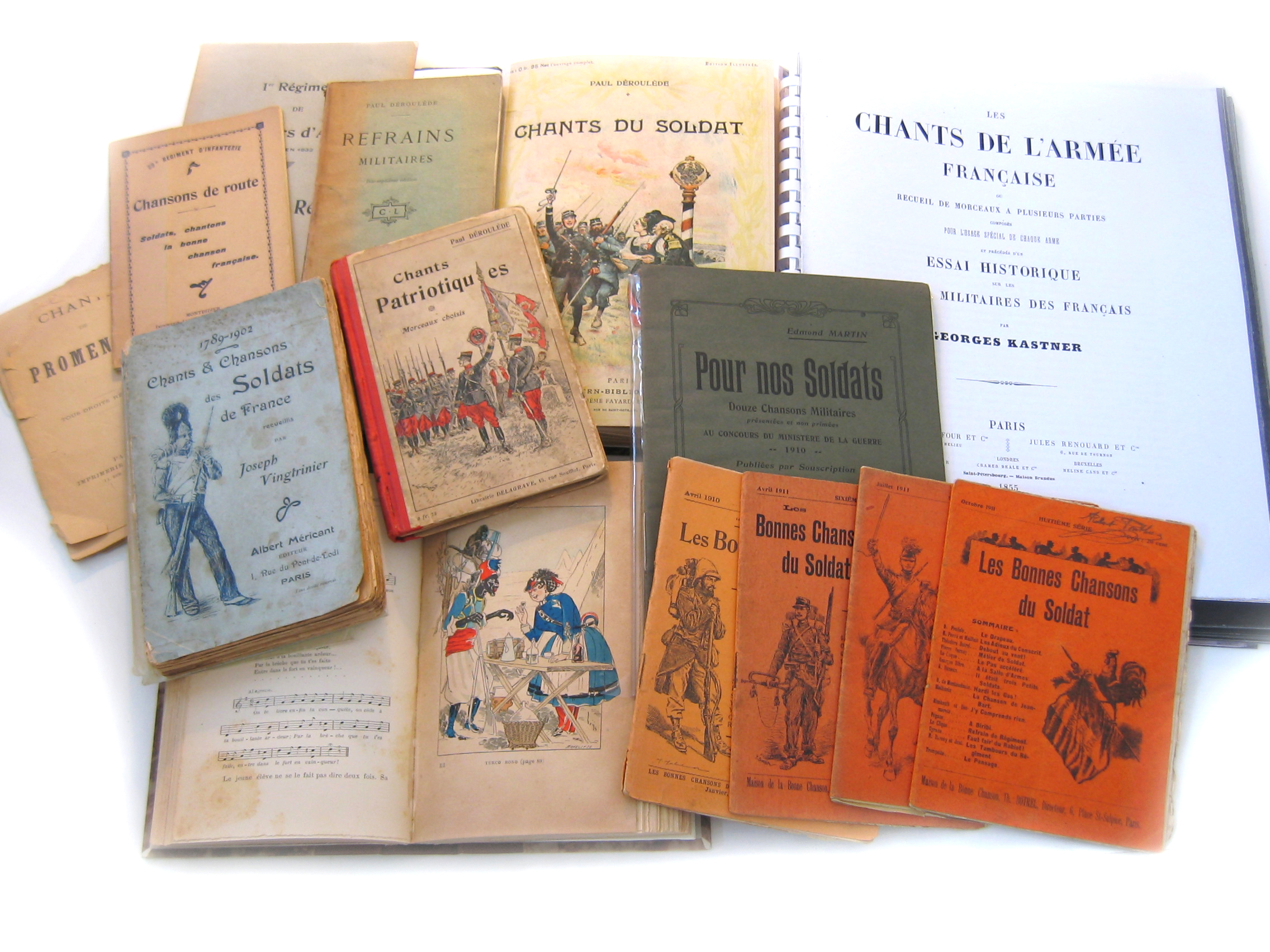 French military songbooks previous WW1